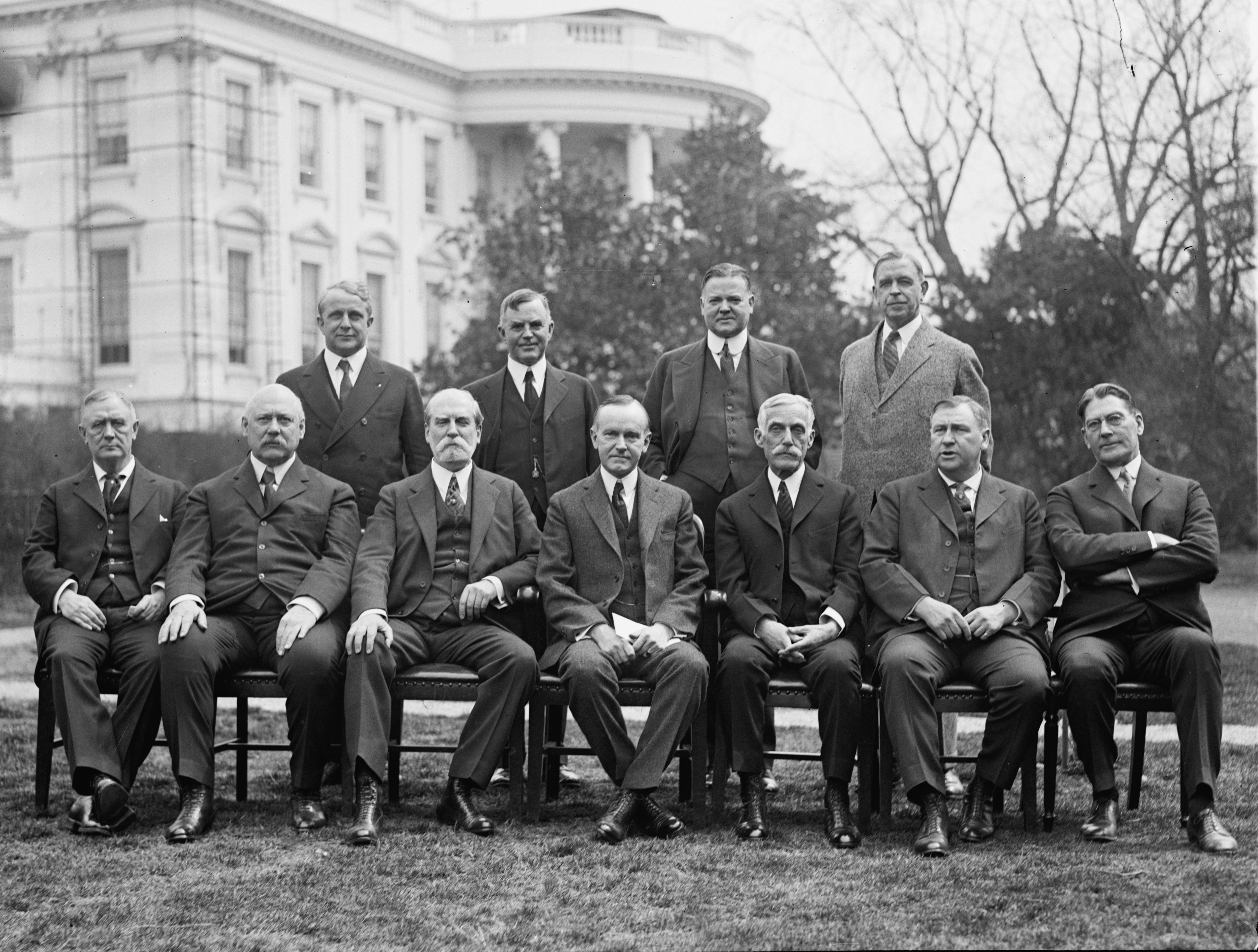 President Calvin Coolidge's cabinet Coolidge's cabinet in 1924, outside the White House Front row, left to right:Harry Stewart New, John W. Weeks, Charles Evans Hughes, Coolidge, Andrew Mellon, Harry M. Daugherty, Curtis D. Wilbur Back row, left to right, James J. Davis, Henry C. Wallace, Herbert Hoover, Hubert Work